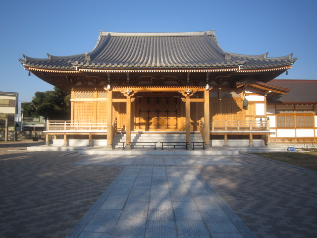 Muryo-ji temple in Narashino City, Chiba Prefecture, Japan